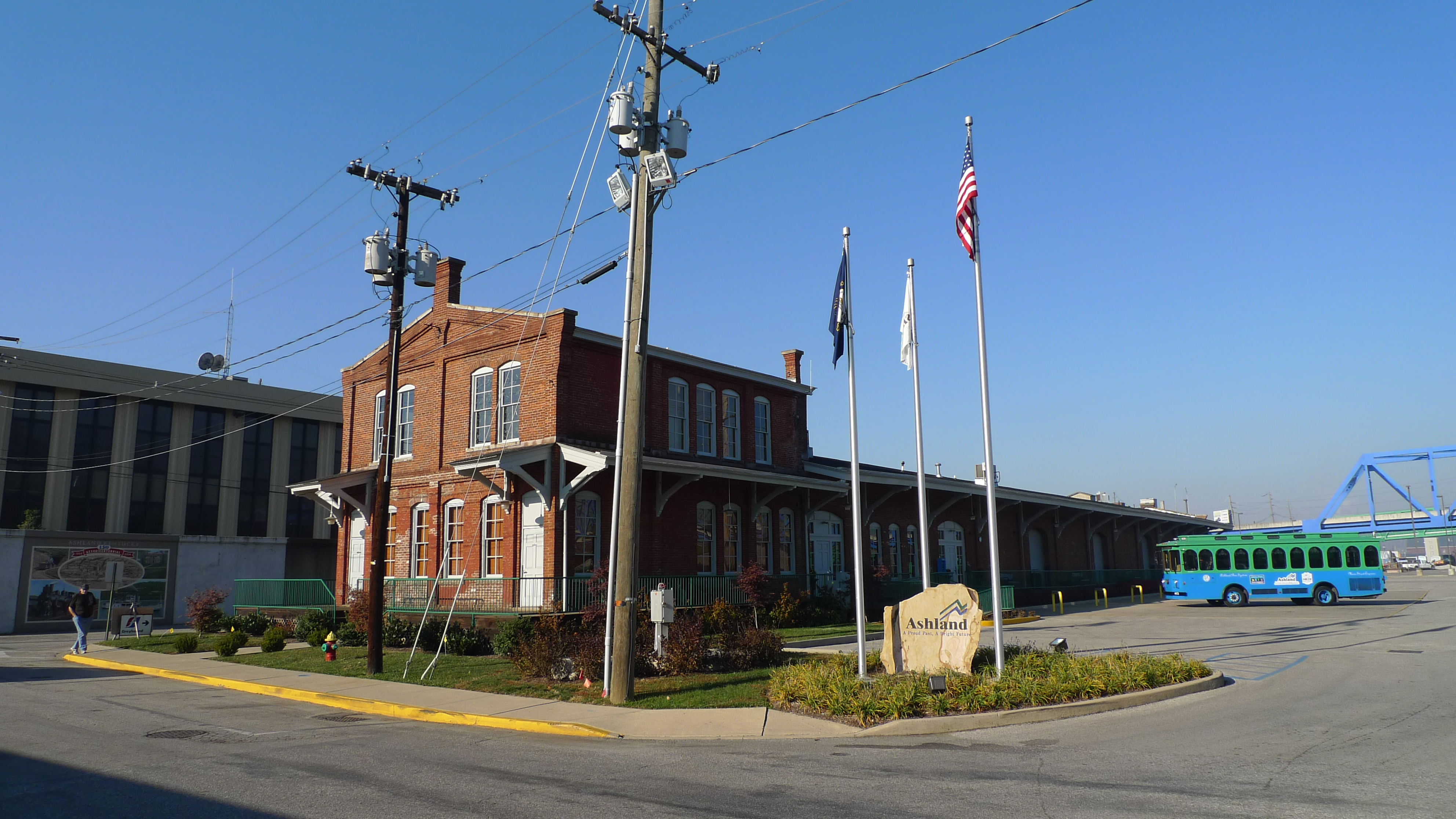 Ashland Transportation Center and Amtrak station in Ashland, KY.